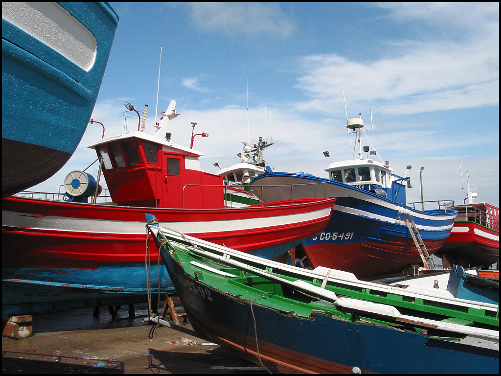 Fisterra. Embarcacións. Galiza. photo by ricardo / This photo is licensed under a Creative Commons license. If you use this photo within the terms of the license or make special arrangements to use the photo, please list the photo credit as "ricardo / " and link the credit to .